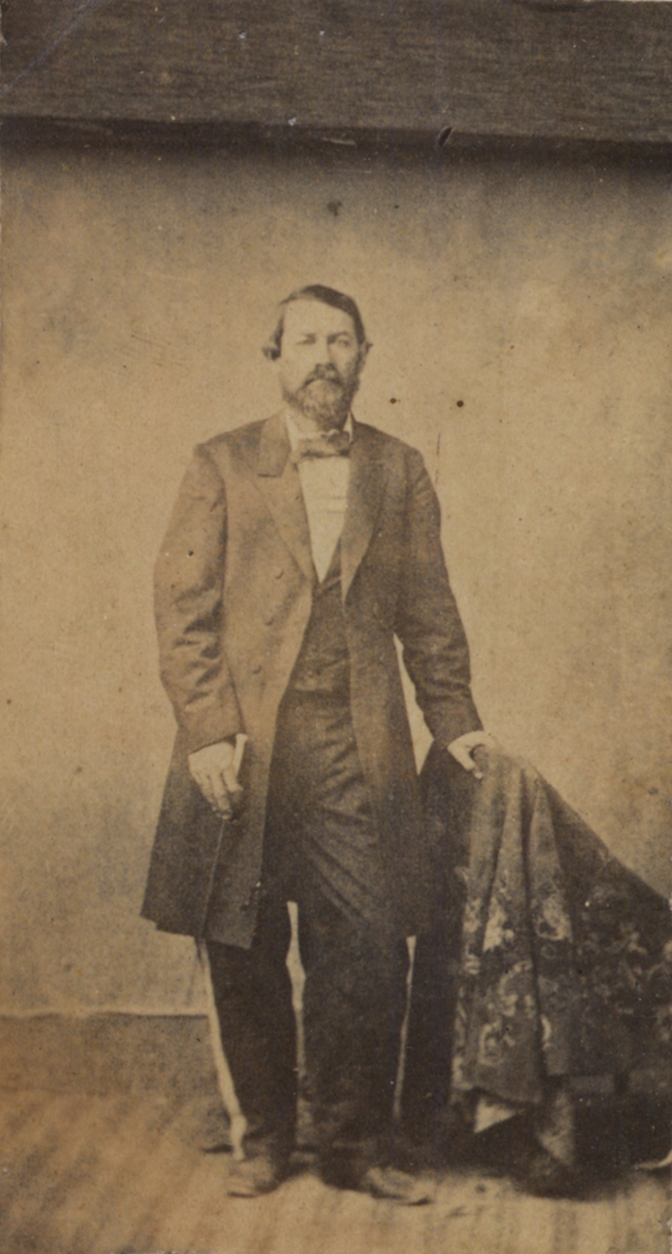 Juan Nepomuceno Cortina, Mexican military officer, DeGolyer Library, Southern Methodist University